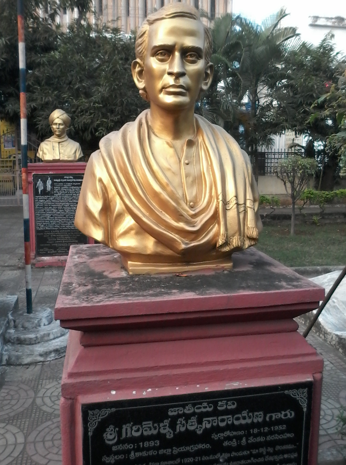 Garimella satyanarayana statue at freedom fighters park, rajahmundry